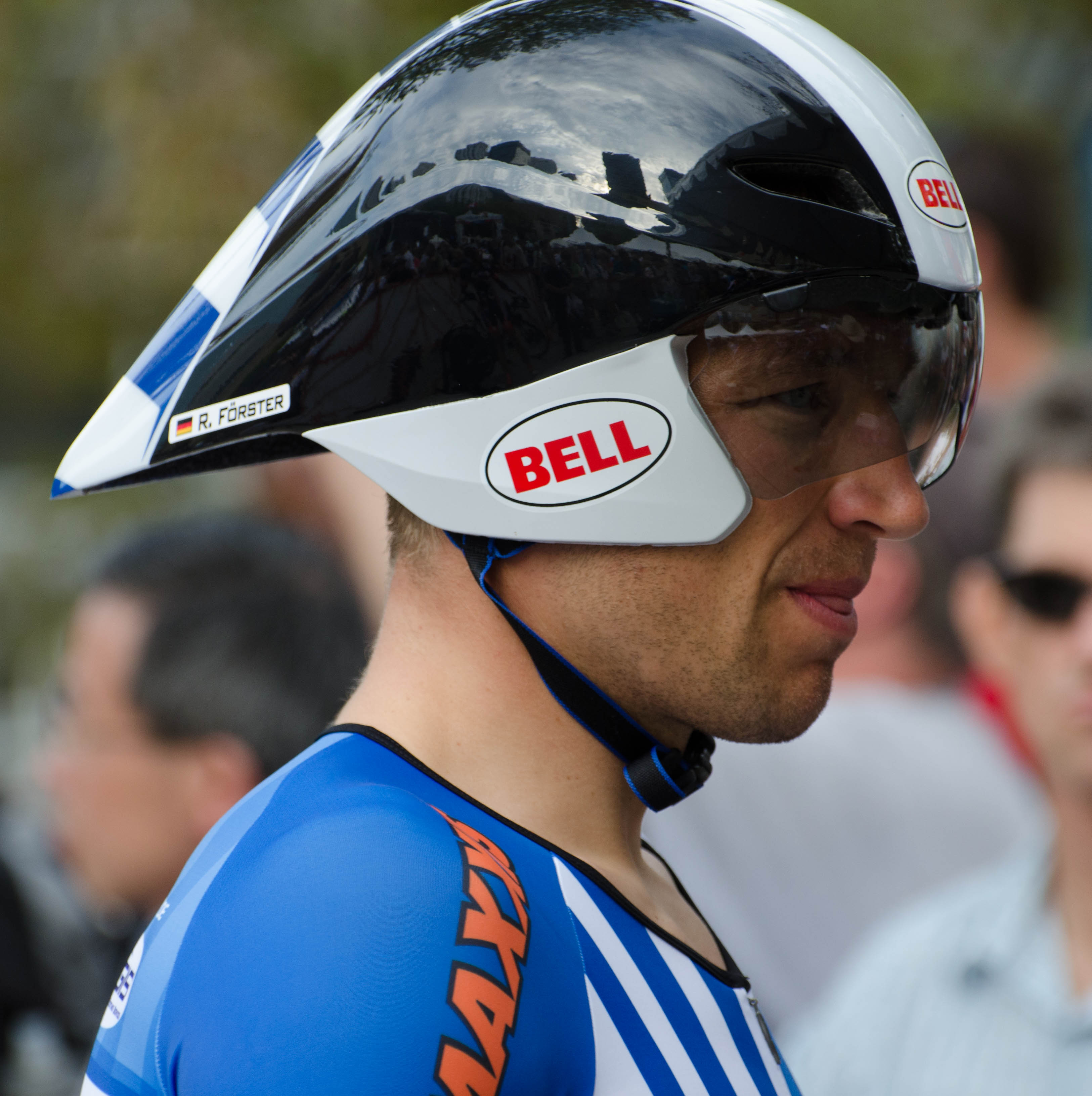 Professional cyclist Robert Förster at the 2013 Tour of Alberta